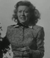 Cropped screenshot of Greer Garson from the trailer for the film Desire Me